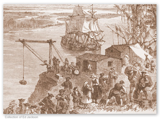 Etching of the settling of Savannah, the unloading of the James, 1733